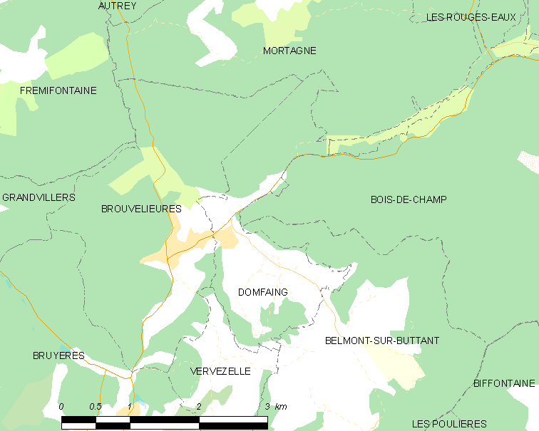 Map of French municipality Domfaing